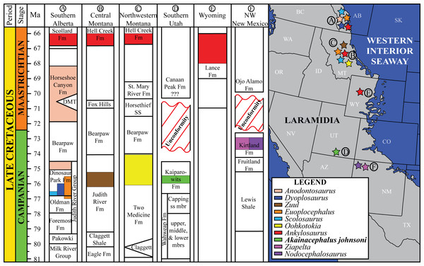 Overview of stratigraphic, temporal, and biogeographic distribution of Late Cretaceous (upper Campanian–upper Maastrichtian) ankylosaurid dinosaurs, including Akainacephalus johnsoni, across northern Laramidian (Alberta, Montana, Wyoming), and southern Laramidian (Utah, New Mexico) basins. Noticeable is the higher number of taxa and more widespread distribution of ankylosaurids in northern Laramidia. Colored bars within stratigraphic formations represent ankylosaurid taxa and their respective temporal range. Paleogeographic map modified after Sampson et al. (2010). Stratigraphic intervals modified after Arbour & Currie (2013a); Roberts et al. (2013); Johnson, Nichols & Hartman (2002).